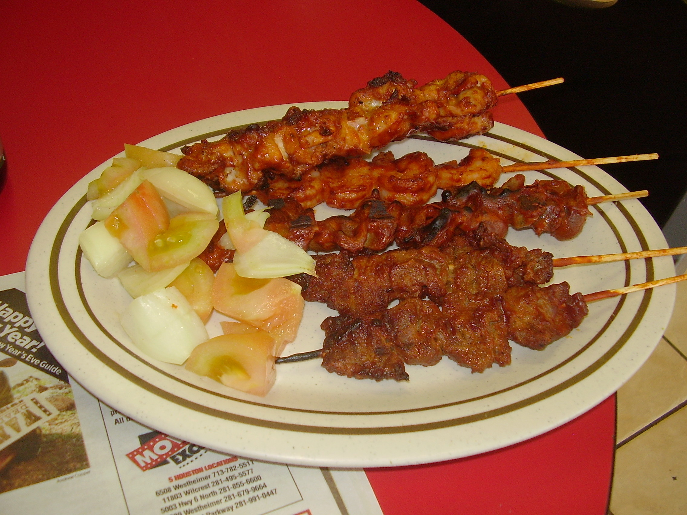 Varieties of Suya: Beef, Gizzard, and Chicken